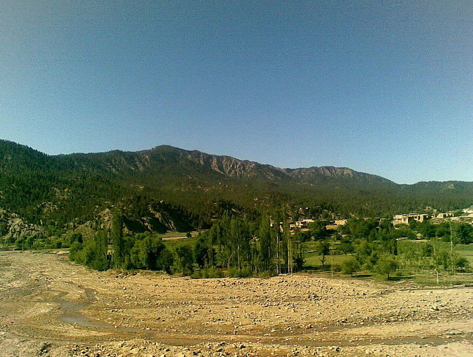 ziruk mountainous area Other information Zerok district